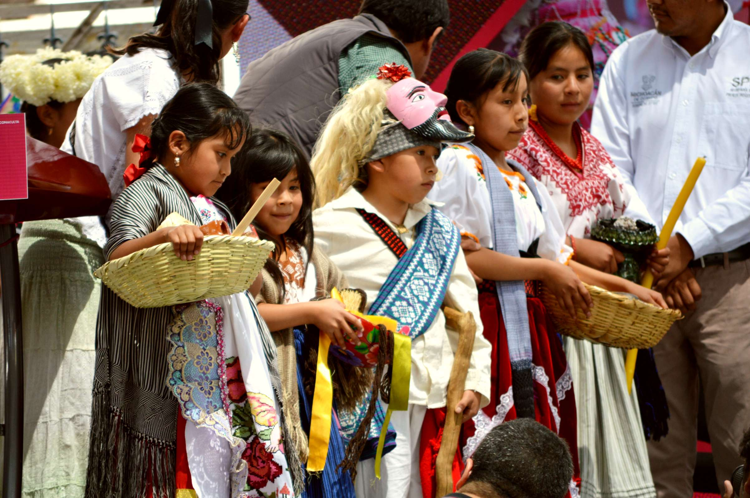 Representatives of the Purhepecha people at the 2015 Muestra de Indumentaria Tradicional de Ceremonias y Danzas de Michoacán, part of the Tianguis de Domingo de Ramos in Uruapan, Michoacan, Mexico